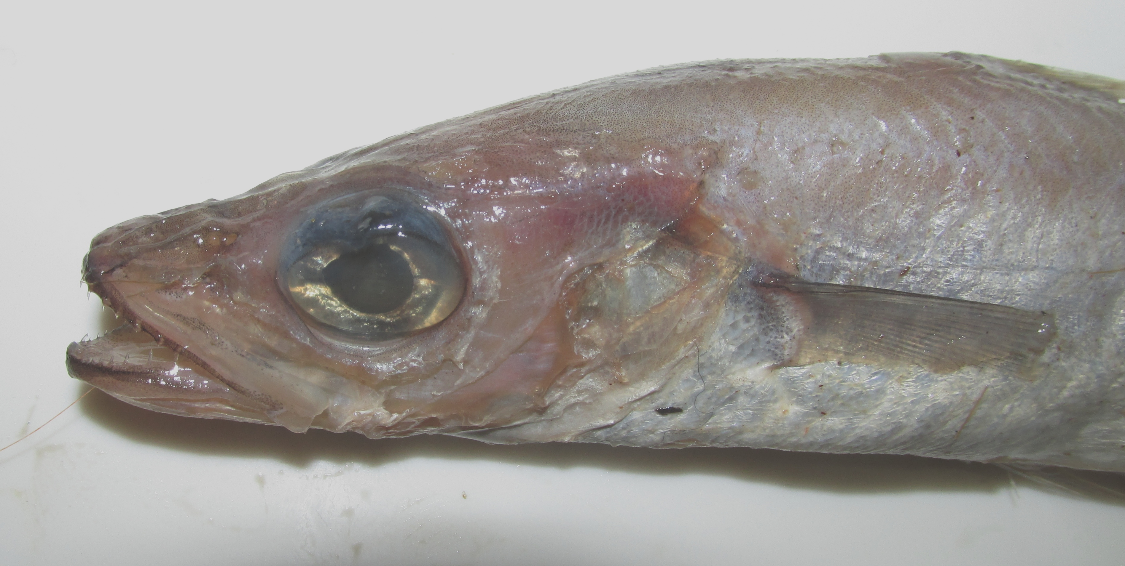 Blue whiting (Micromesistius poutassou) trawled at 500 m depth, Tuscan Archipelago